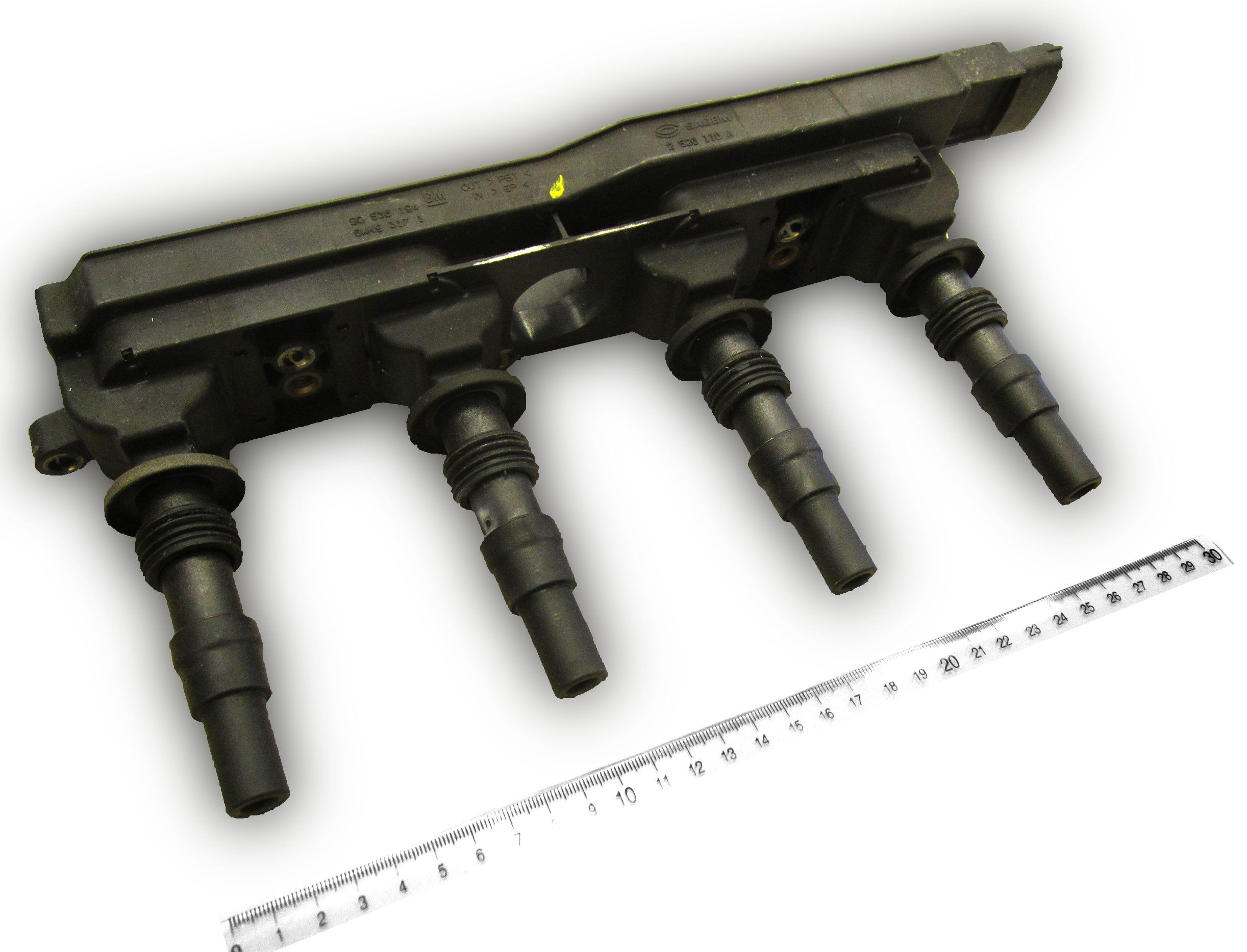 Ignition Coil / Ignition Module of the motor type Z18XE from Opel. Scale is in Centimeter